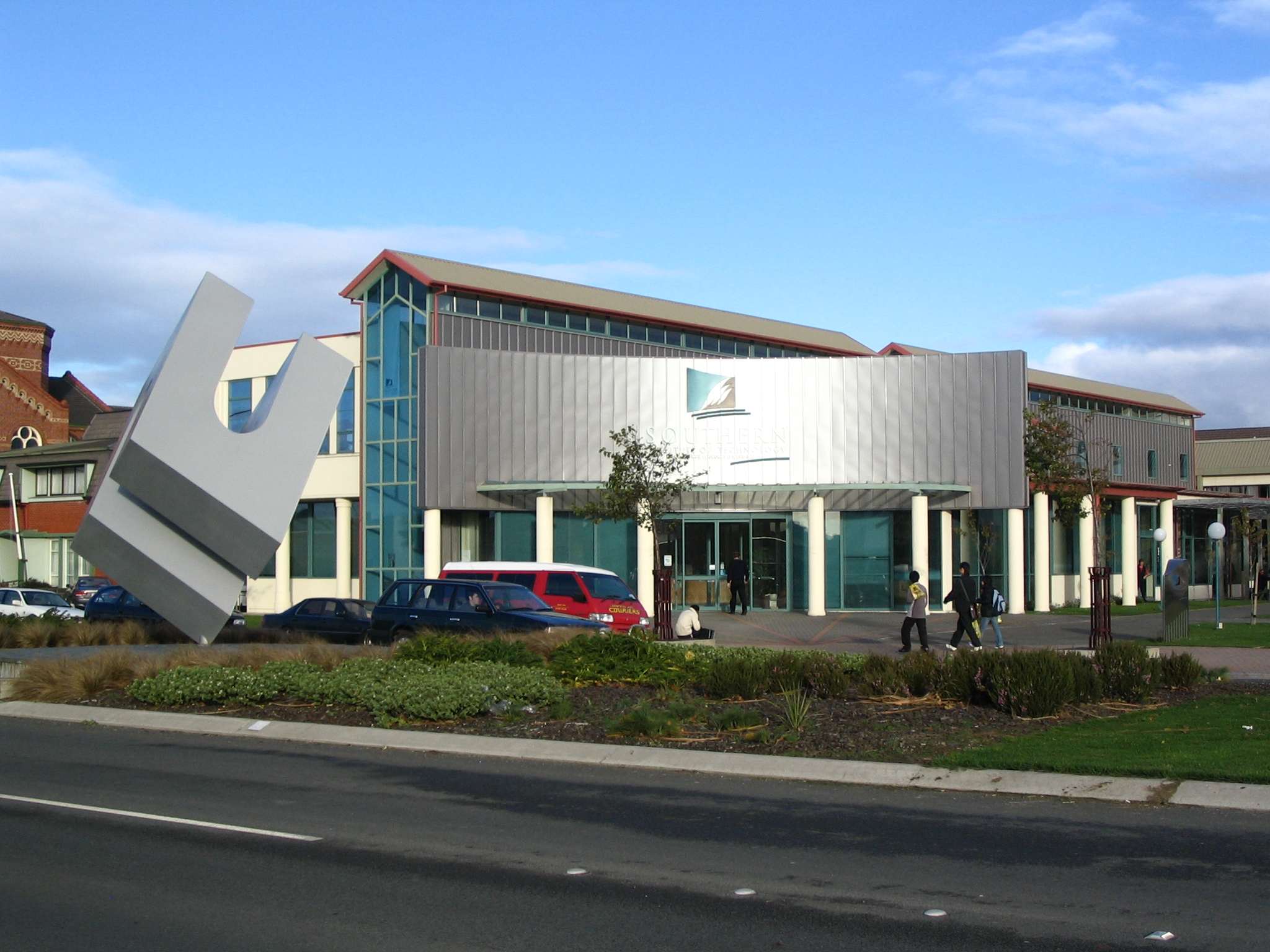 Photographer: William Stewart (AKA Willuknight 22:30, 25 November 2006 (UTC)) Subject: Southland Institute of Technology Location: Tay St, Invercargill, New Zealand